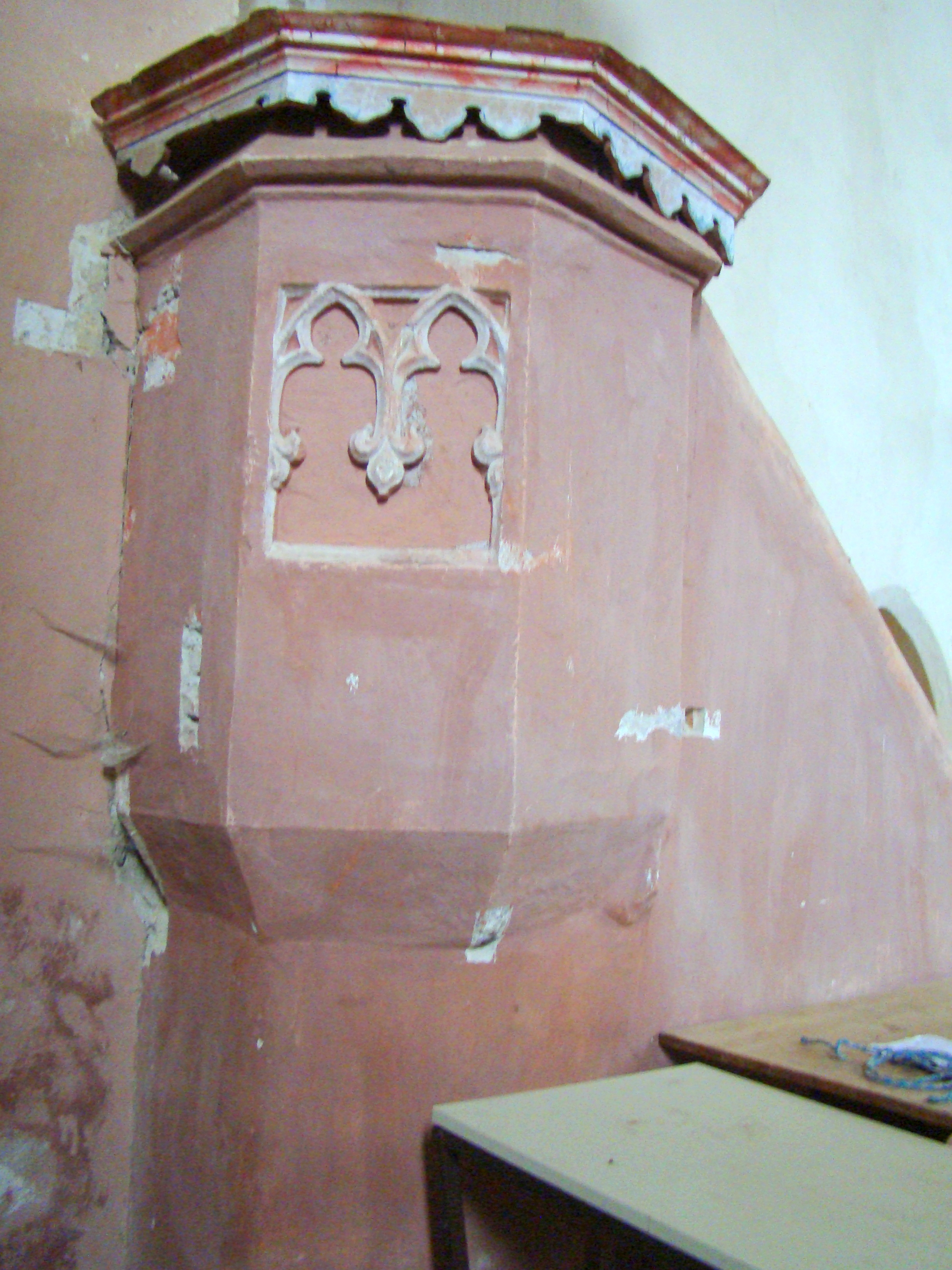 Lutheran church in Daia, Mureș county, Romania